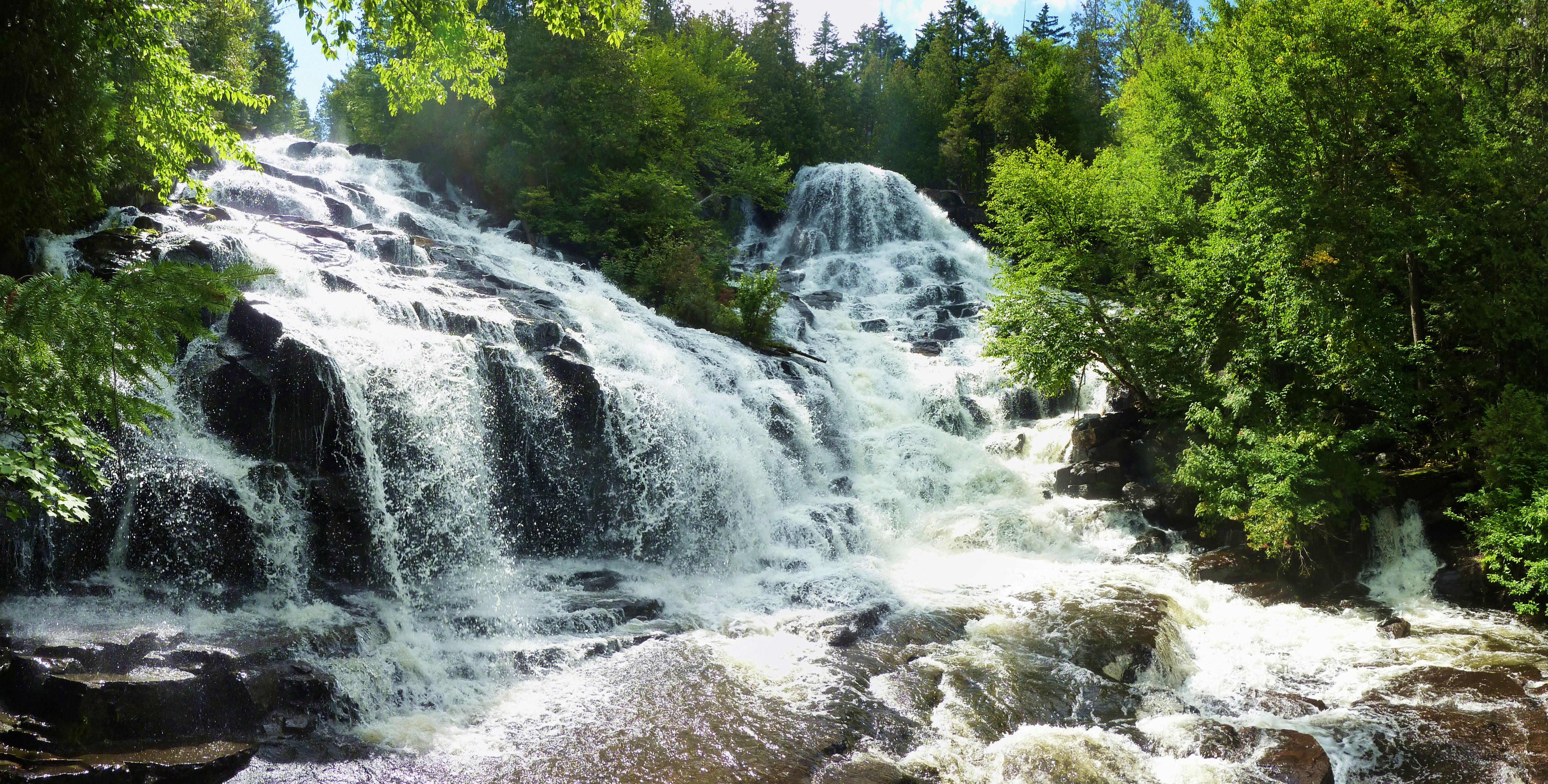 Waber Falls, in La Mauricie National Park, Quebec (Canada). To reach them, one must cross Lake Wapizagonke and walk through a 3km path in the forest.